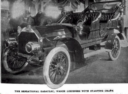 1905 Gas-Au-Lec 40-45 HP touring. The Vaughn Machine Co. of Peabody, Mass. built 1 to 4 of these impressive cars in total. The car featured a huge 4 cylinder T-head engine and an electric motor at the Propeller shaft for starting the engine, reverse, slow City traffic, or additional hill climb power. The engine had electrically operated valves, thus eliminating crank , cams, camshafts (T-head normally need two), and tappets. Valve times was adjustable from the driver's seat. Gas-au-Lec stands for "Gasoline-Auxiliary-Electric.